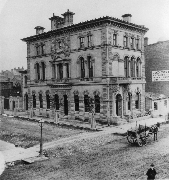 Branch of the Ontario Bank, at the corner of Wellington and Scott Streets, Toronto, Canada.